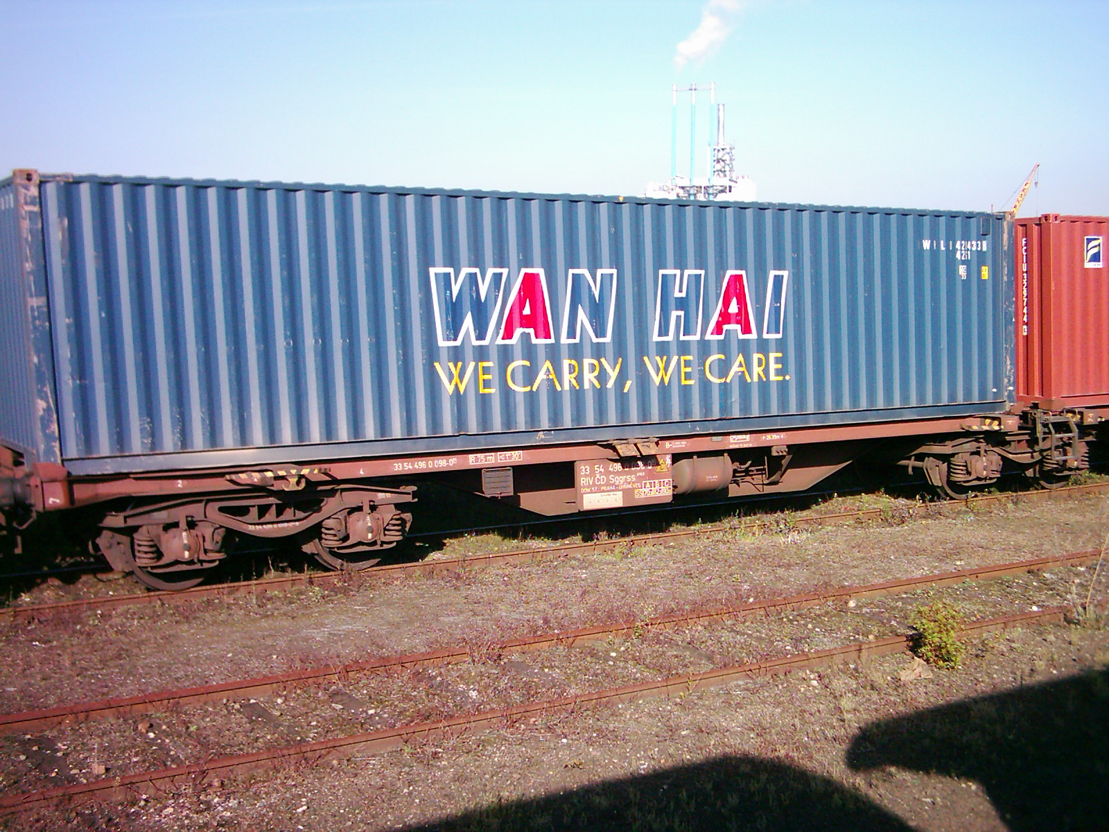 WAN HAI container, Hamburg, Germany.